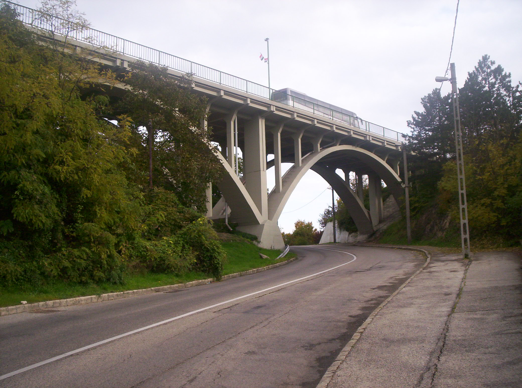 Description: The two small arcs of the Viaduct of Veszprém